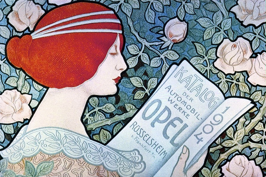 Cover of 1904 Opel catalog (detail), Art Nouveau style